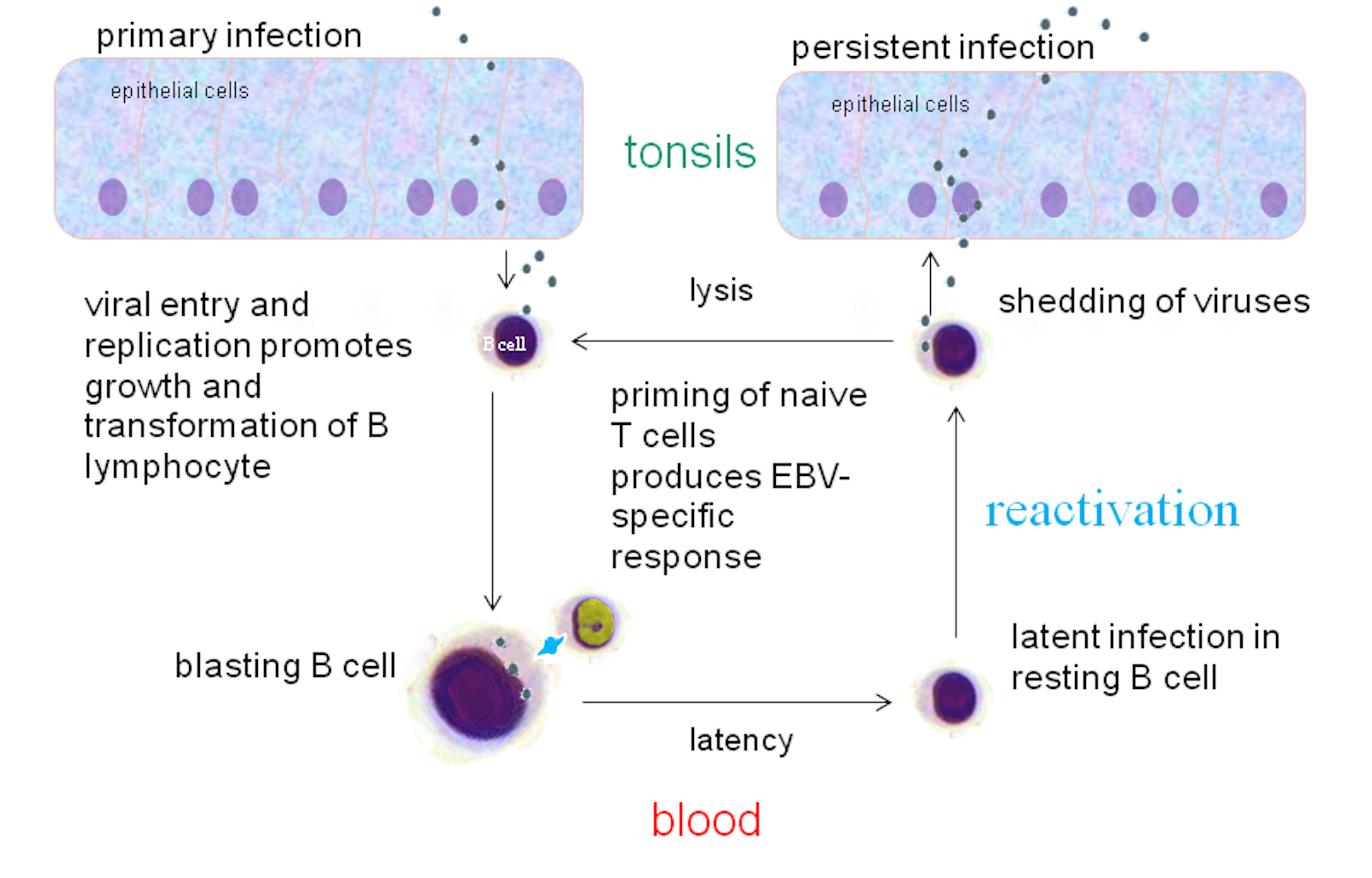 Schematic diagram of the replication cycle of Epstein-Barr virus in healthy humans